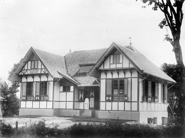 Telephone office